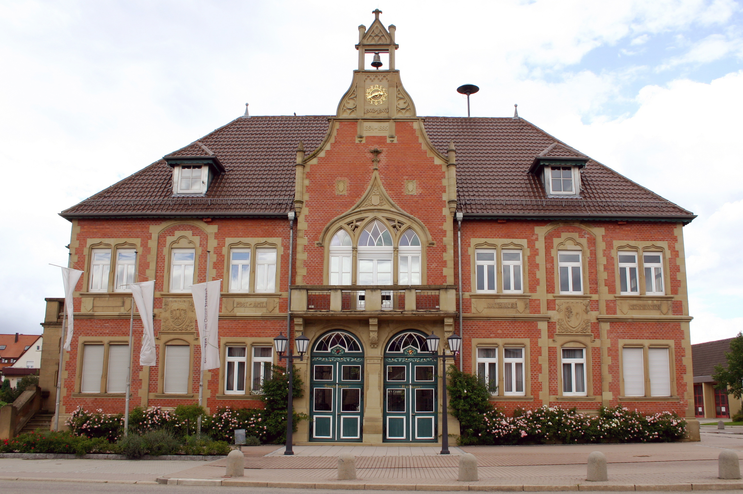 Historical townhall of D-75050 Gemmingen (Germany)